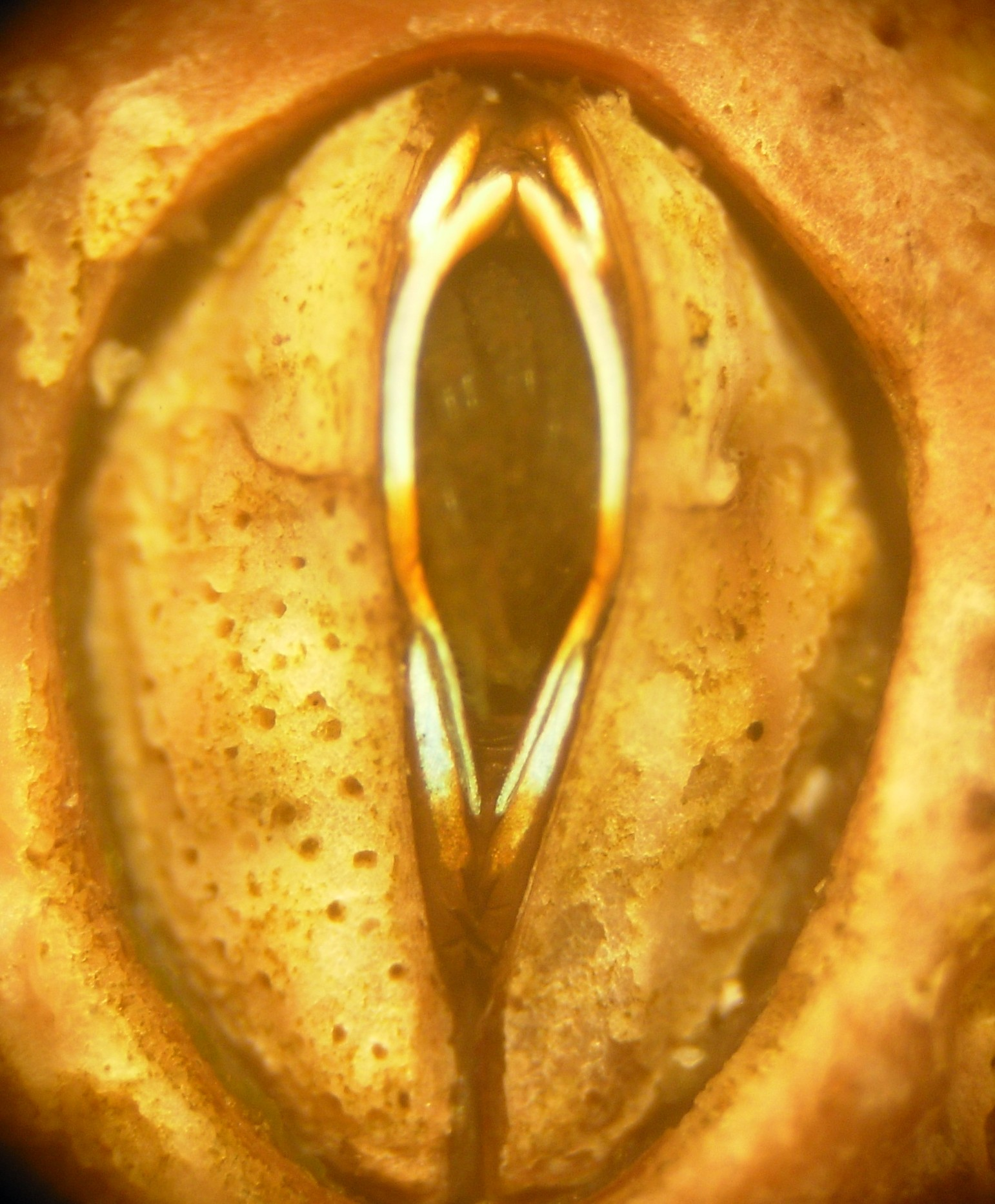 Tergoscutal flaps in Chthamalus stellatus